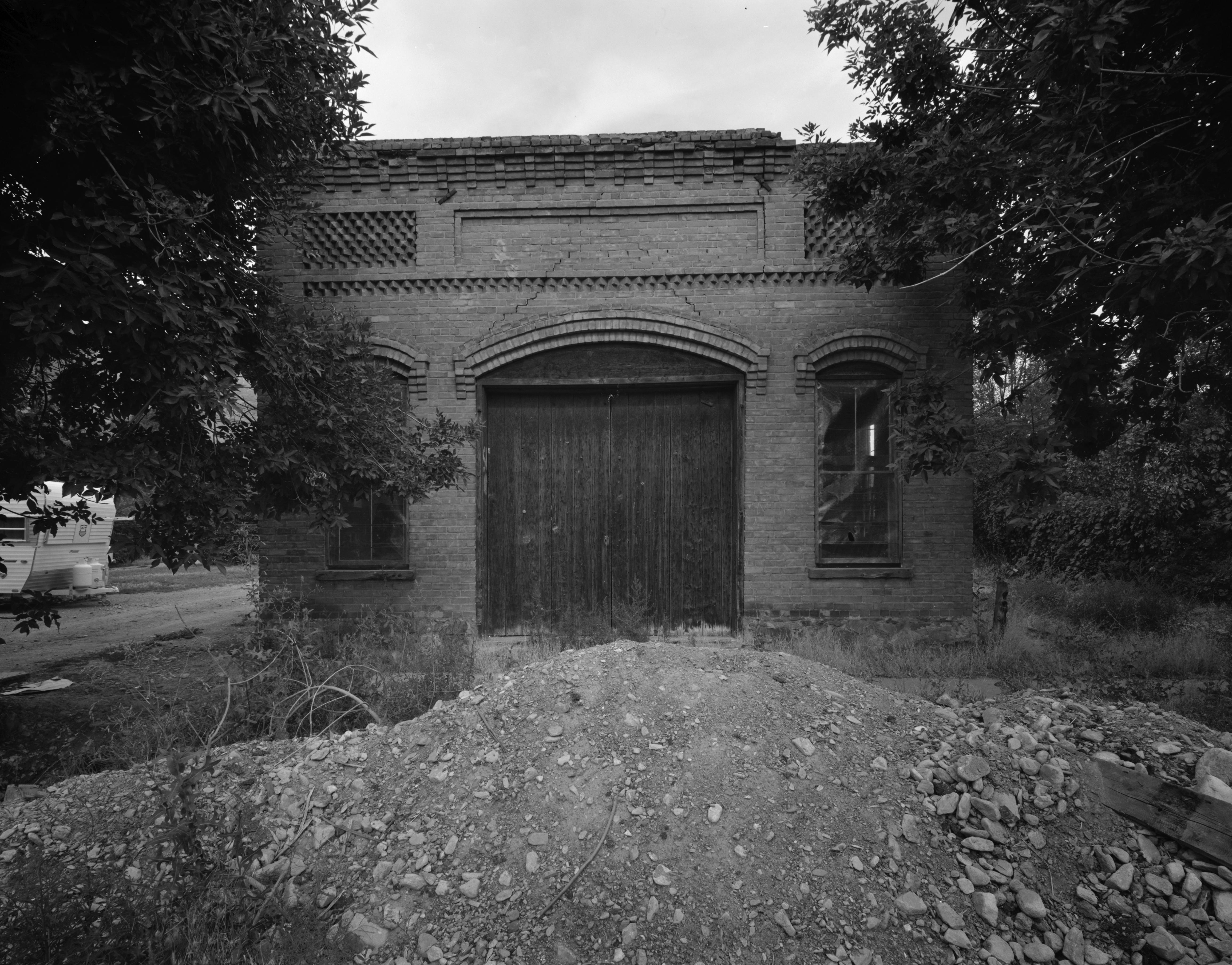 Front of the Fugal Blacksmith Shop, located at approximately 680 N. 400 East in Pleasant Grove, Utah, United States. Built in 1903, it is listed on the National Register of Historic Places.